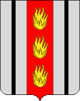 Coat of Arms of Kolpino (Russia)